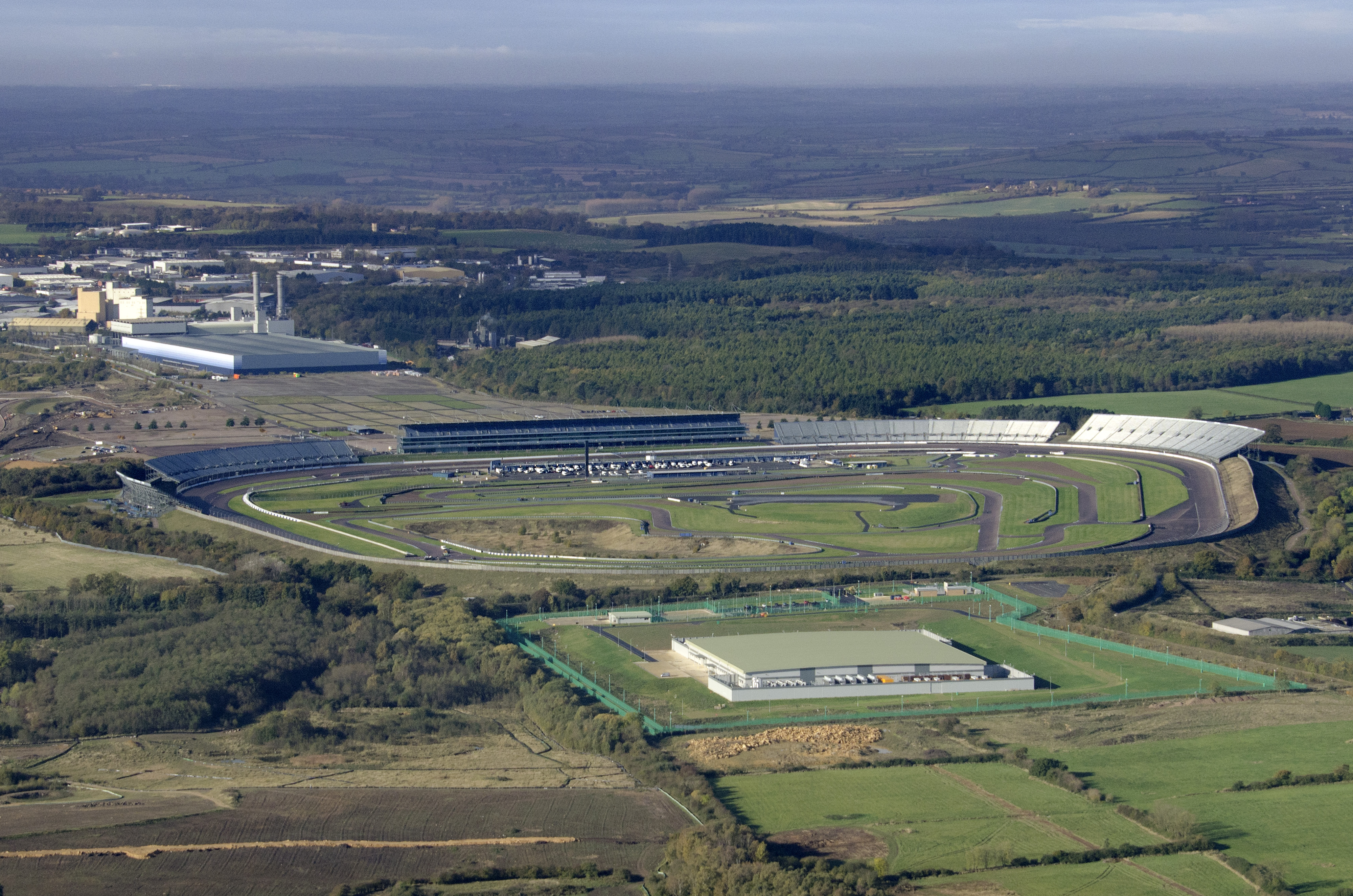 It's a fabulous looking place although I'd never heard of or seen it before stumbling across it on my way somewhere. It stood out for miles around because of the light reflecting from the stands. Rockingham Motor Speedway NN17 5AF - aerial